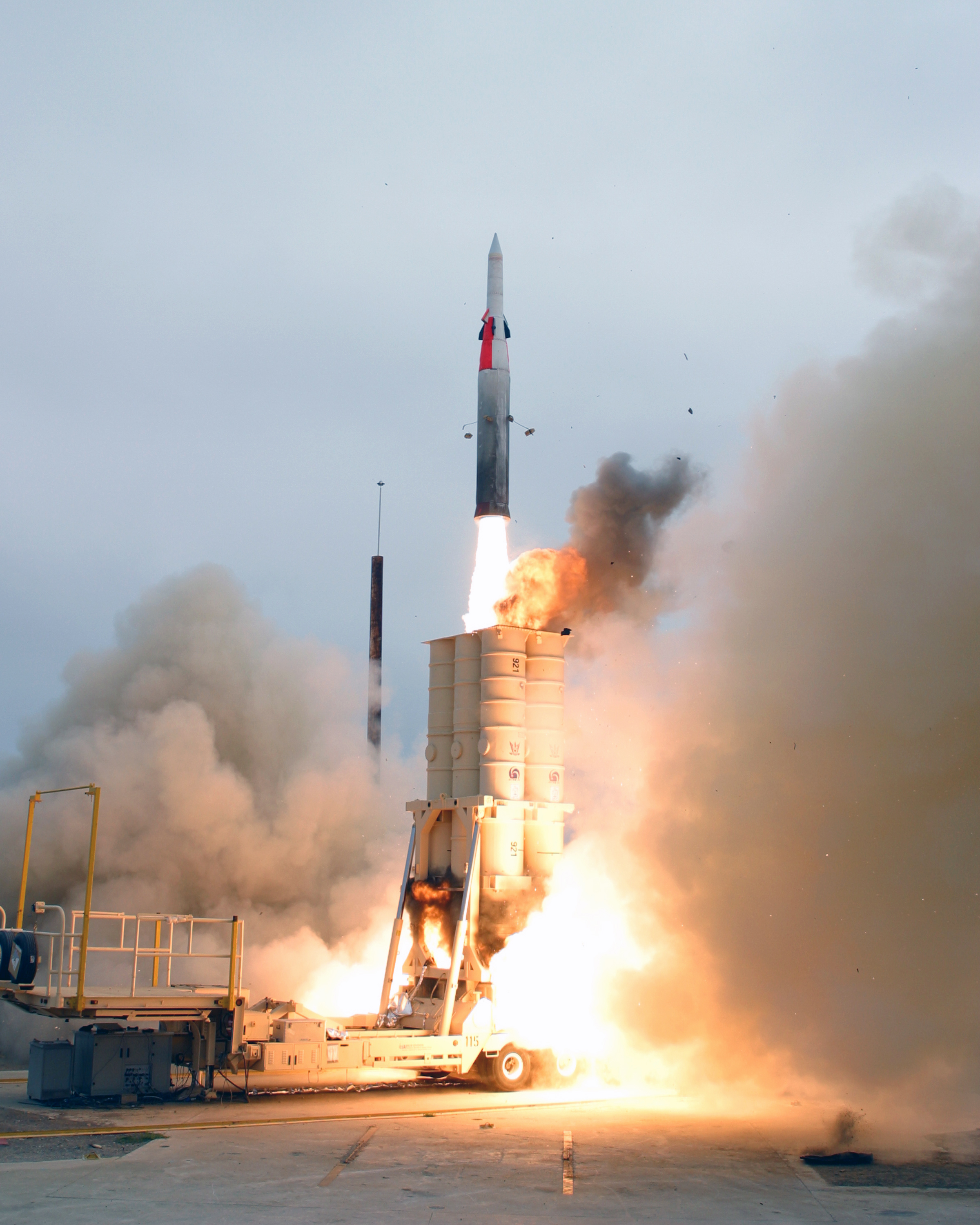 Arrow anti-ballistic missile launch. Original image caption: 040729-N-0000X-001 Point Mugu, Calif. (July 29, 2004) - An Arrow anti-ballistic missile is launched as part of the on going United States/Israel Arrow System Improvement Program (ASIP). The missile successfully intercepted a short-range target during tests at the Point Mugu Sea Range in Calif. This was the twelfth Arrow intercept test and the seventh test of the complete Arrow system. The objective of the test was to demonstrate the Arrow system’s improved performance against a target that represents a threat to Israel. The test represented a realistic scenario that could not have been tested in Israel due to test-field safety restrictions. U.S. Navy photo (RELEASED)